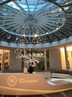 Teleperformance office in France (Headquarter)